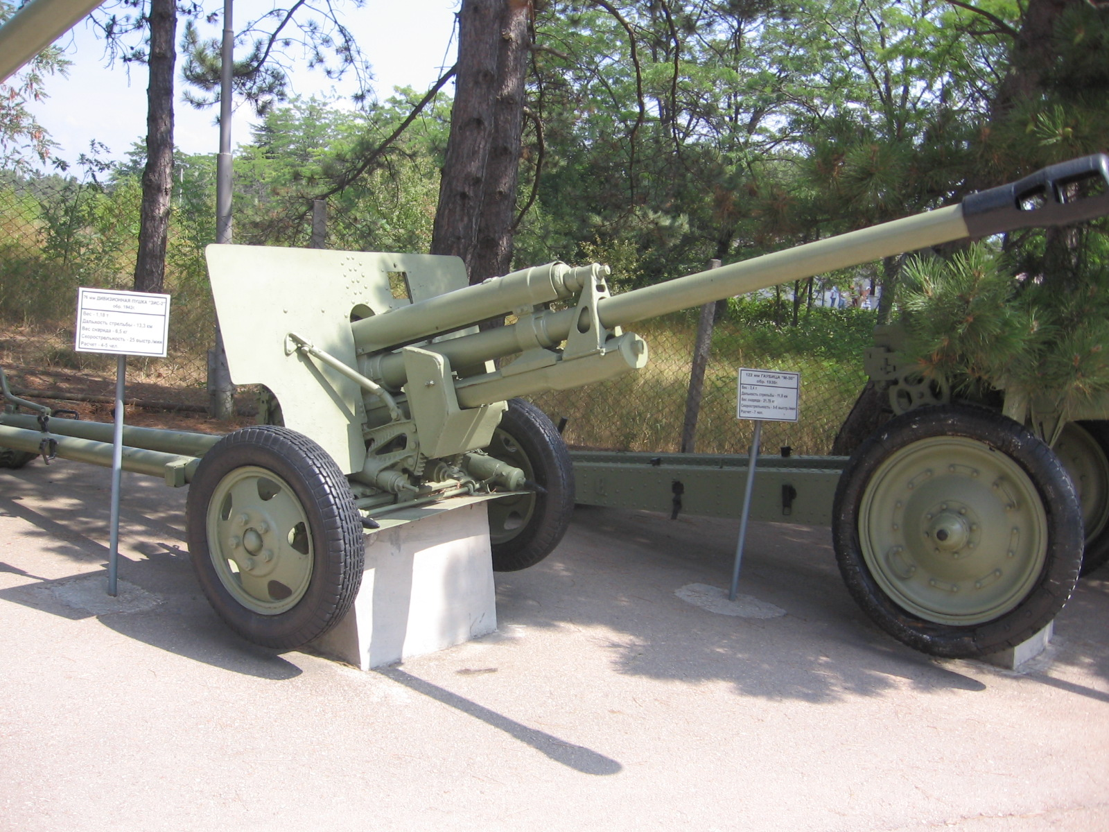 Soviet 76 mm divisional gun M1942 (ZiS-3), since 1960 displayed at the Museum of Heroic Defense and Liberation of Sevastopol on Sapun Mountain in Sevastopol.